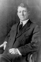 Oregon Senator Harry Lane